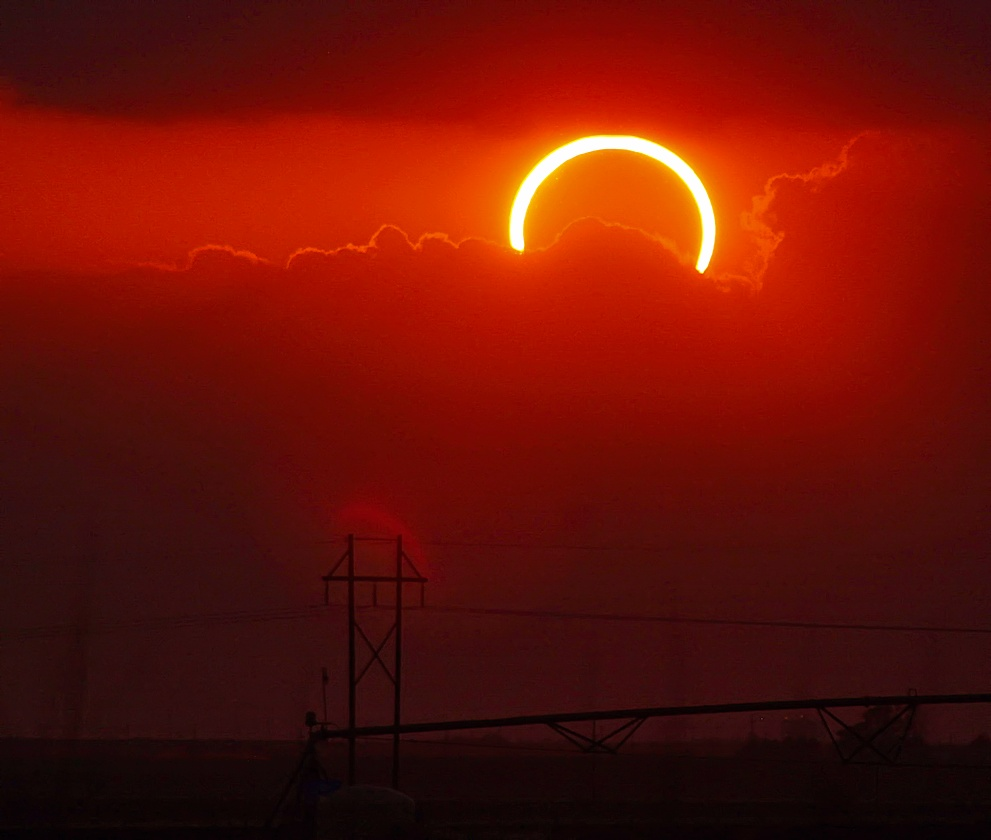 Annular eclipse 05/20/2012 as seen from Wolfforth, Texas, USA